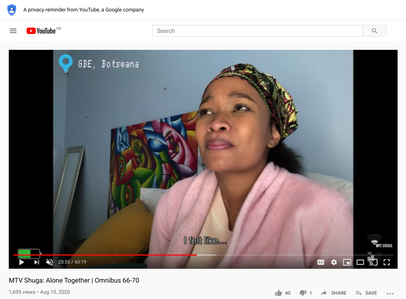 Marang Molosiwa in MTV Shuga Alone Together in 2020. An actor from Botswana in MTV Shuga playing Bokang